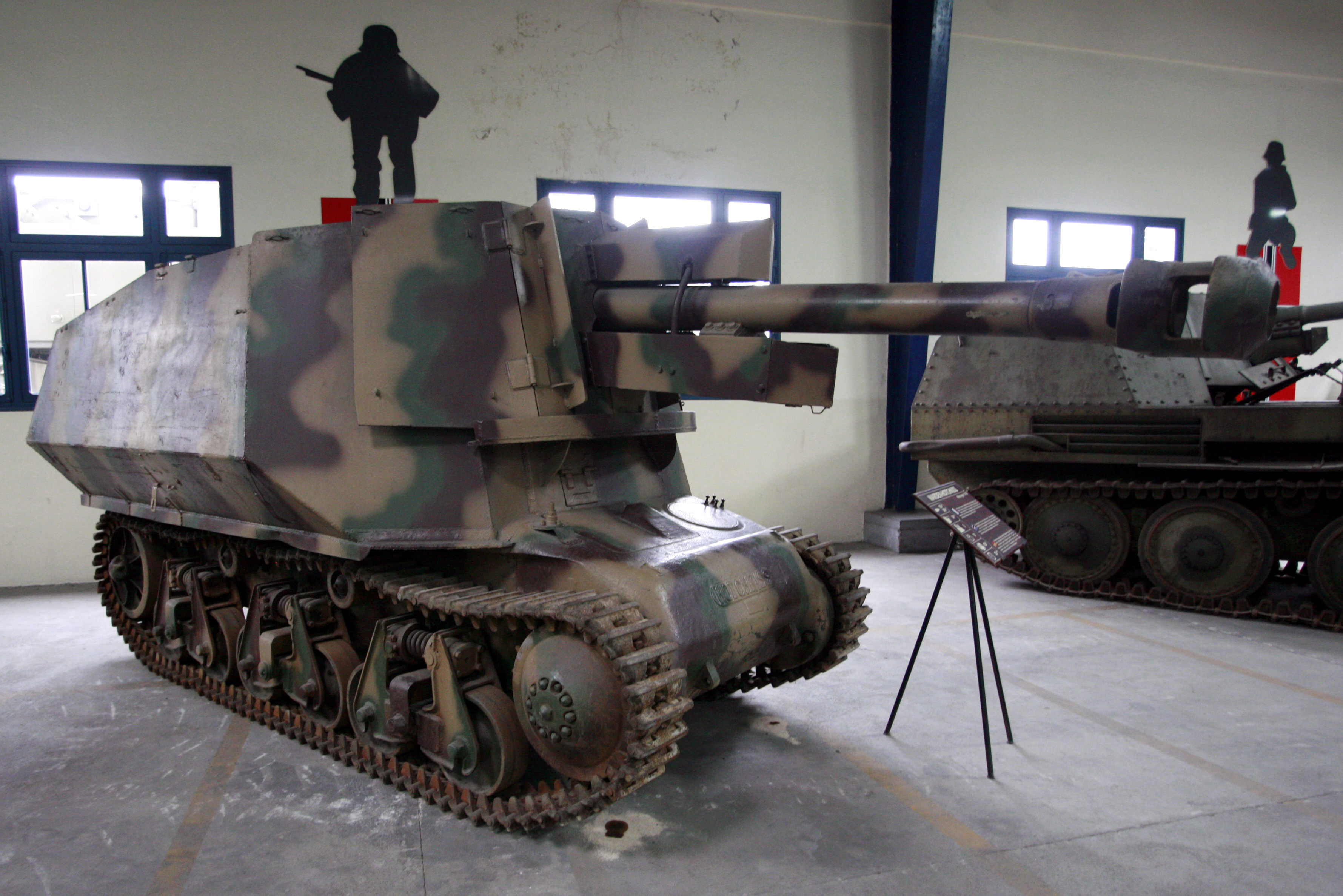 Howitzer leFH 18 built on a Hotchkiss H39 chassis (it's not a tank destroyer Marder I). On display at Saumur Général Estienne museum.